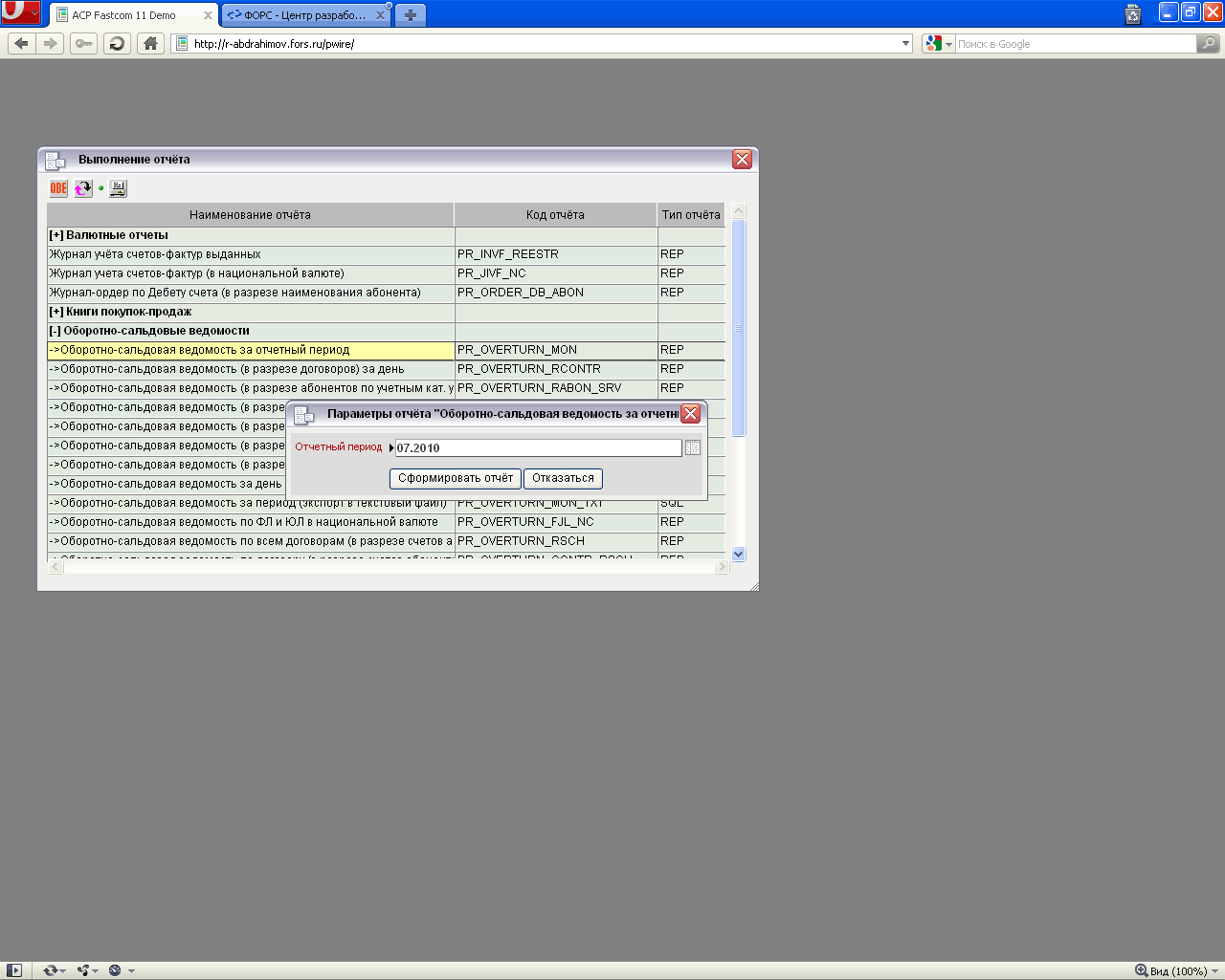 Print of Reports. Fastcom billing system